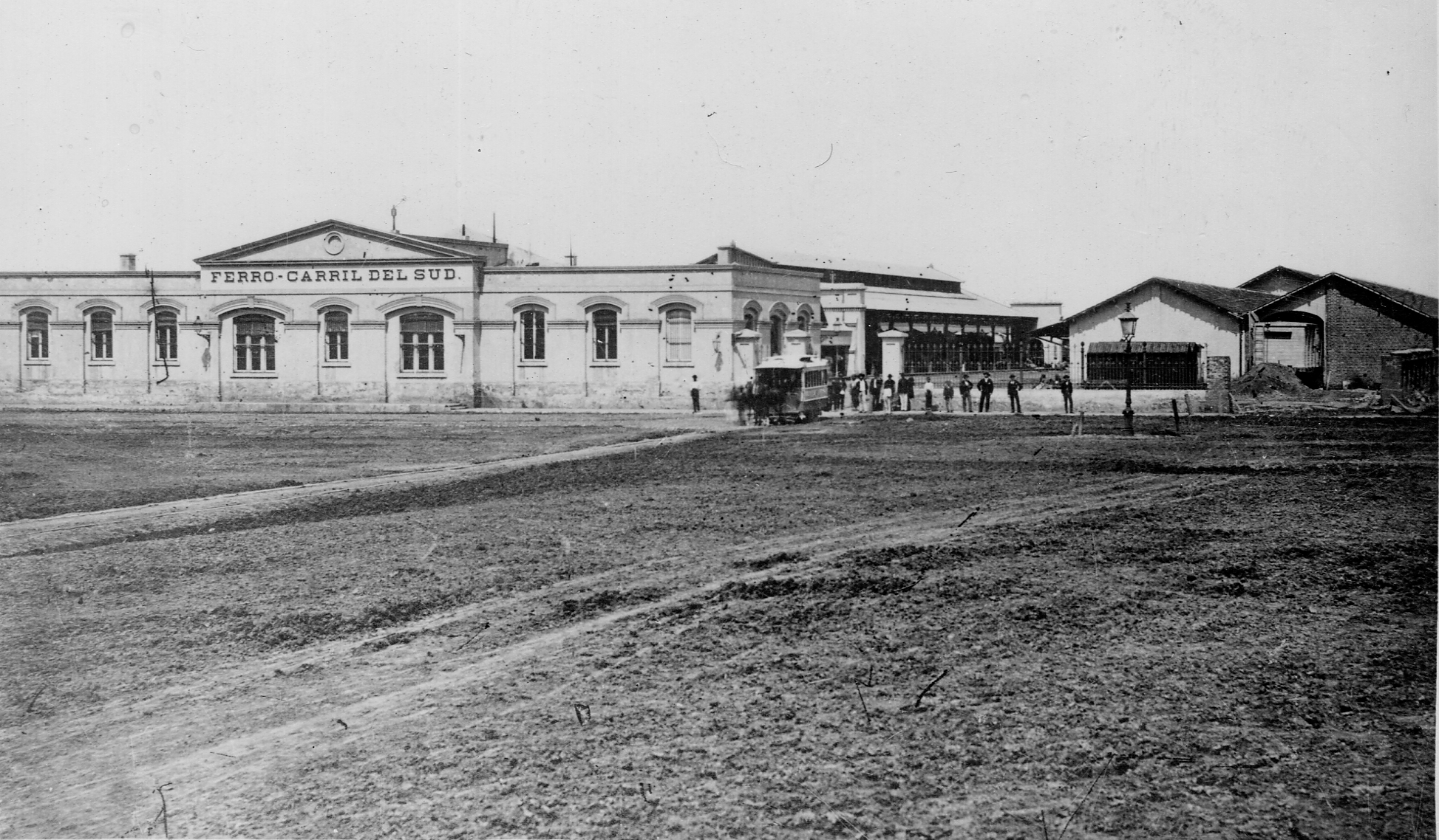 The first Constitución railway station, opened in 1865 and terminus of Ferrocarril del Sud. The carriages carried passengers from there to with Plaza Monserrat